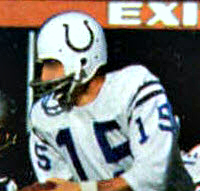 Baltimore Colts quarterback Earl Morrall pictured in an offensive play during Super Bowl V.